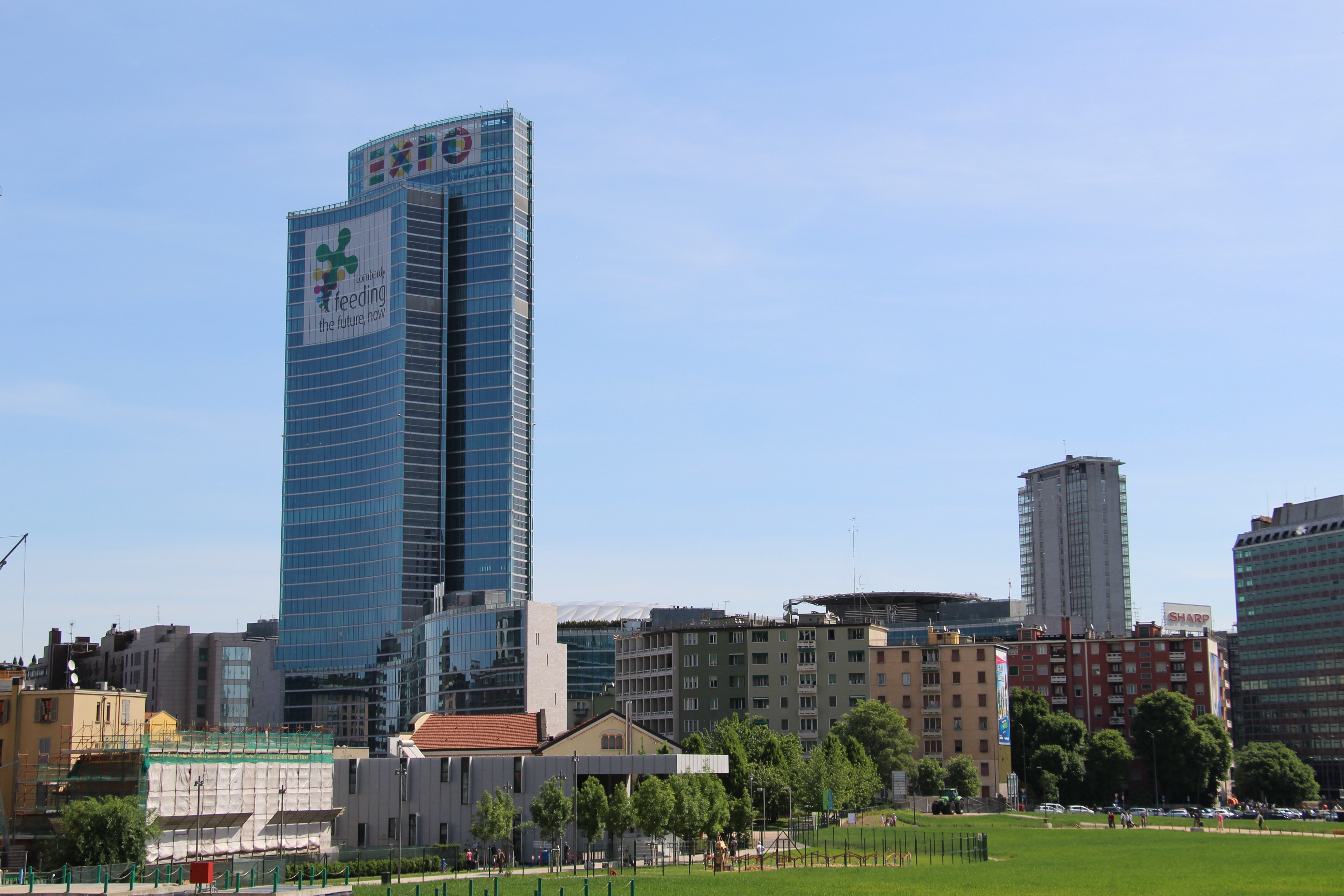 Piazza Gae Aulenti in downtown Milan, Italy featuring Palazzo Lombardia, the hq of Lombardy's regional govt.